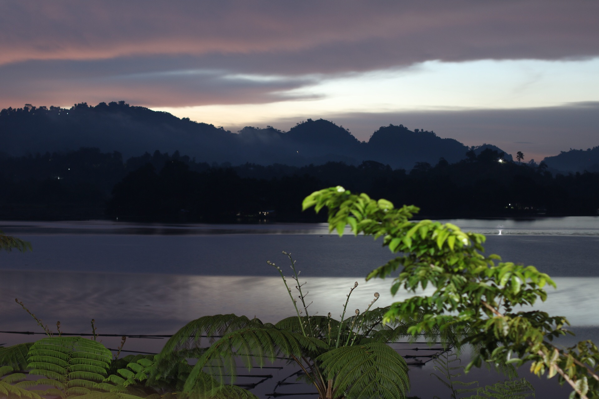 Sunset at Lake Sebu